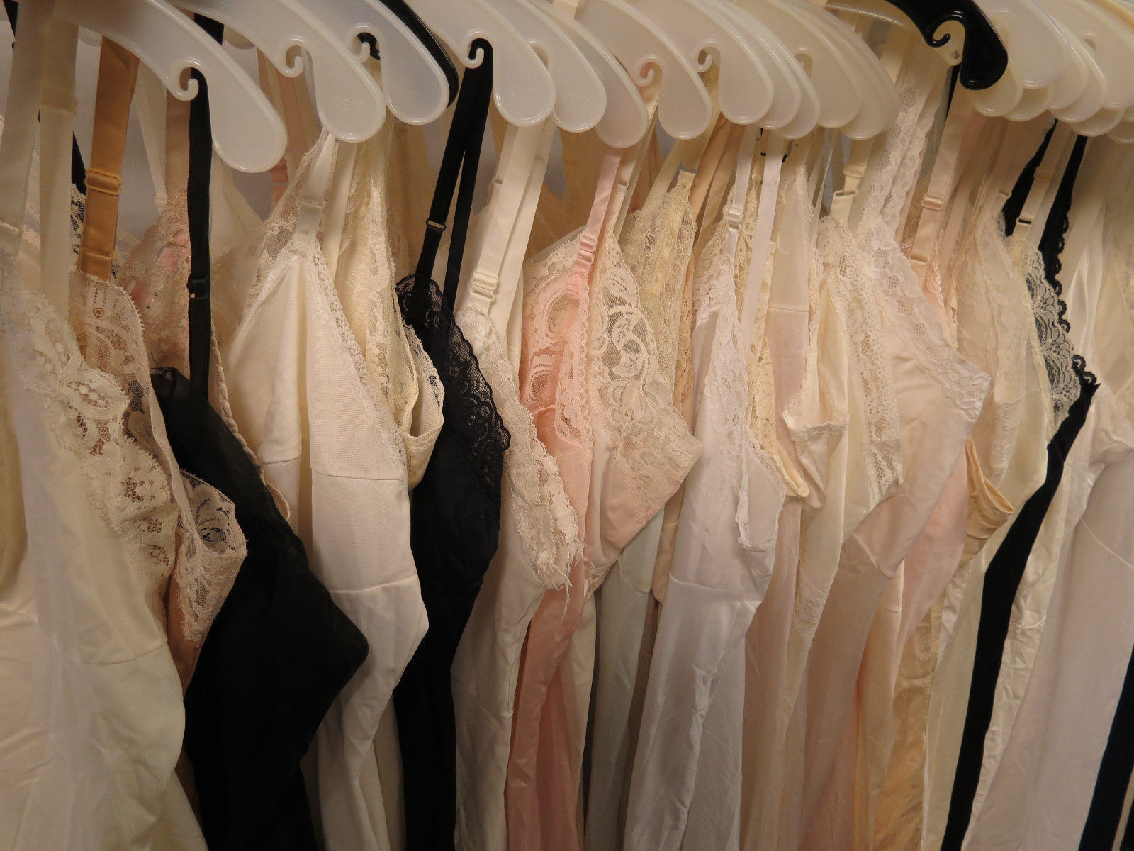 Lot of full slips